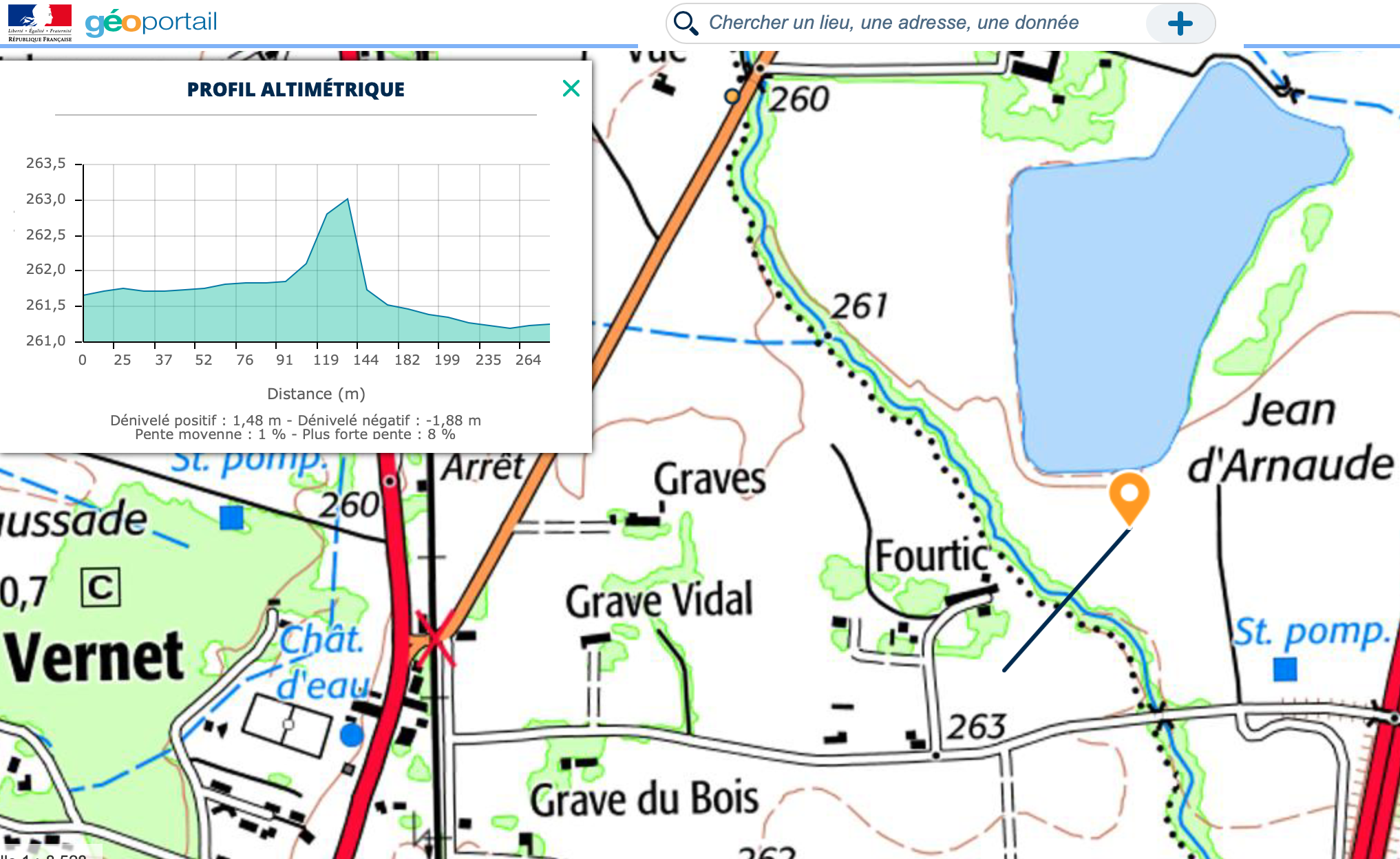 Profil altimétrique de part et d'autre du cours du Crieu aux alentours du Vernet